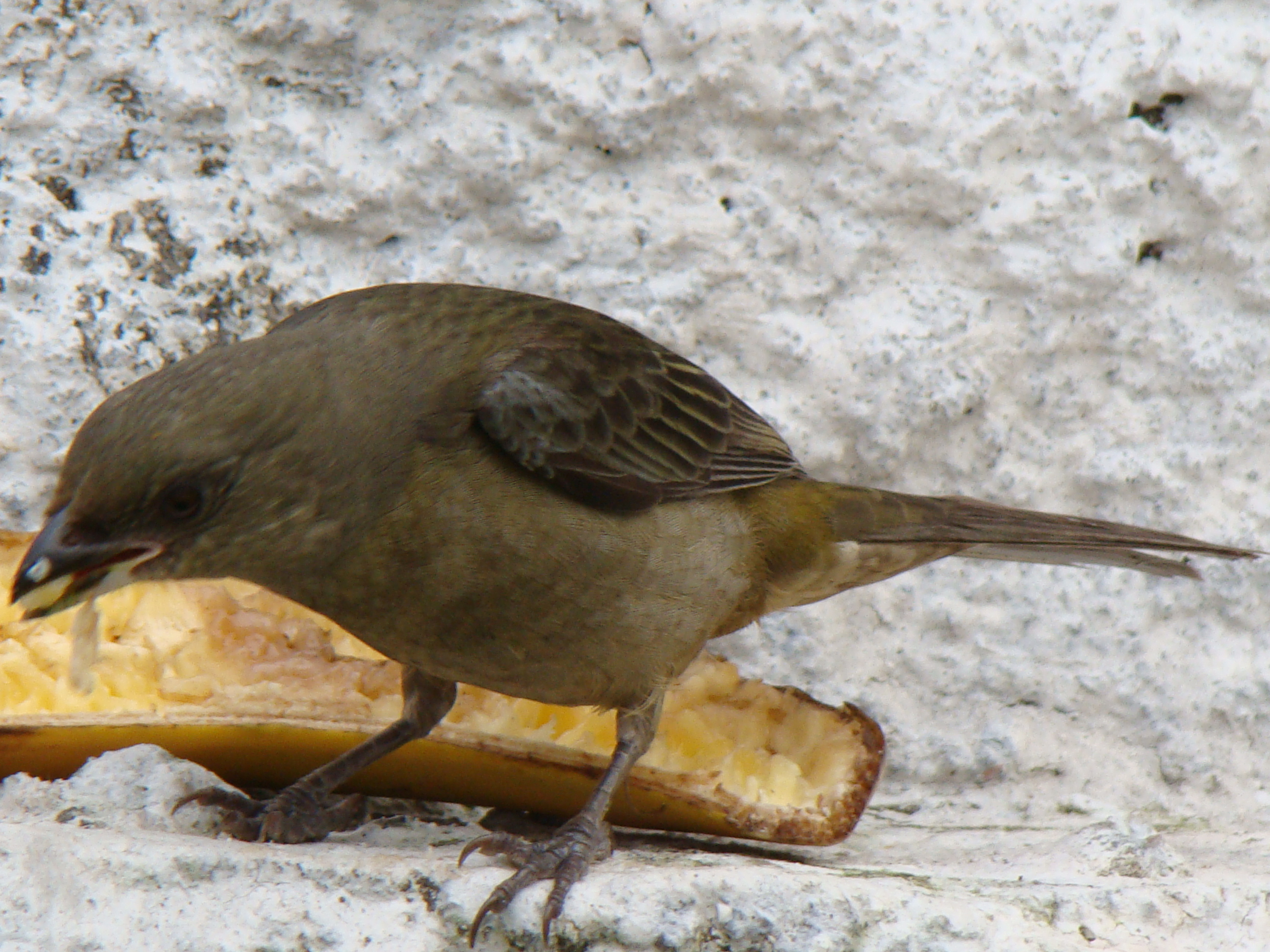 Thraupis bonariensis female Passarinhos 084